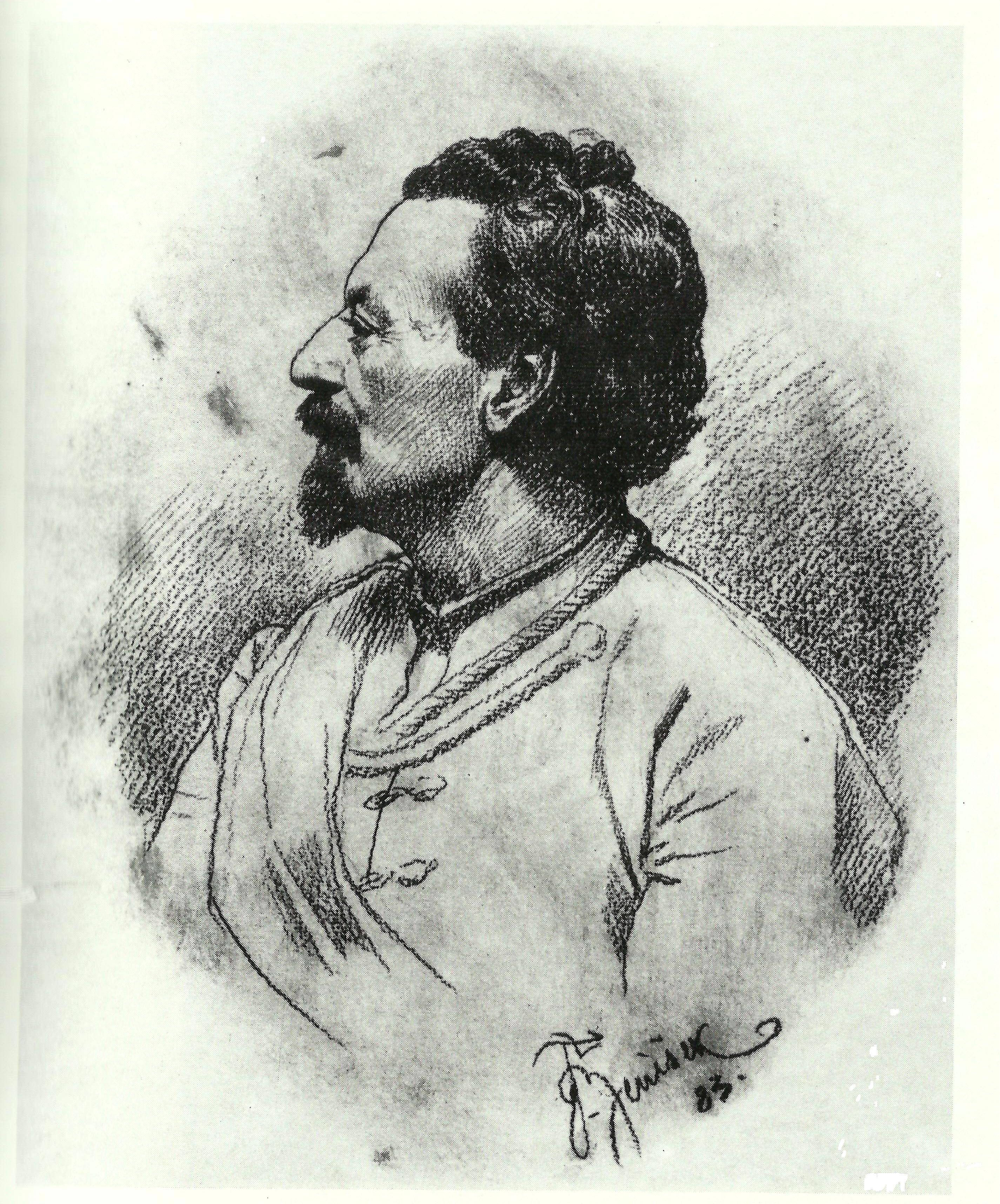 Portrait ofthe founder of Sokol by František Ženíšek